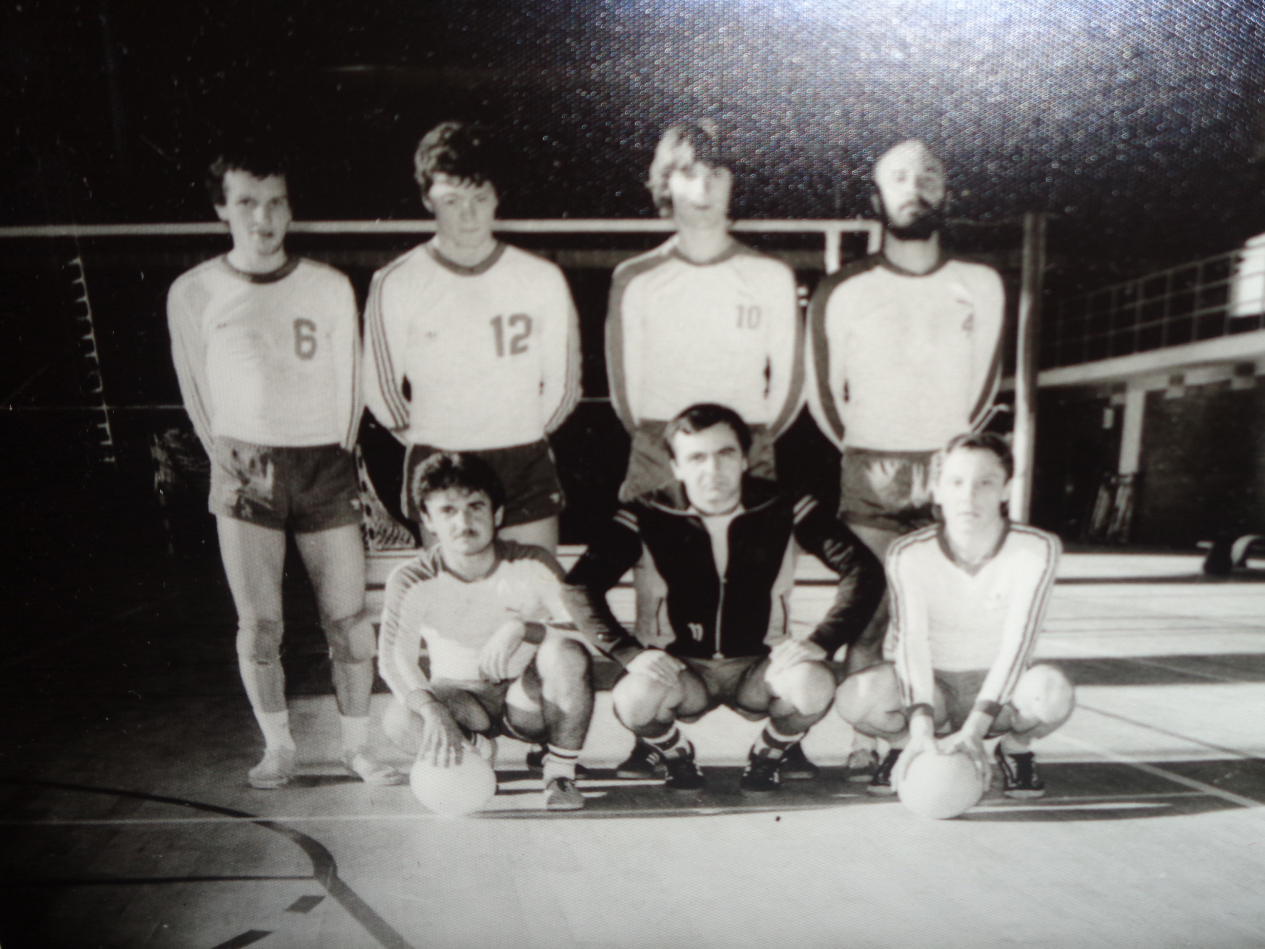 OK "Građevinar" volleyball team from 1982, Čakovec, Croatia (back row, from the left: R.Kolarek, R.Hoblaj, P.Silaj, P.Vojvodić; front row, from the left: D.Oreški, I.Vabec, S.Petriš)